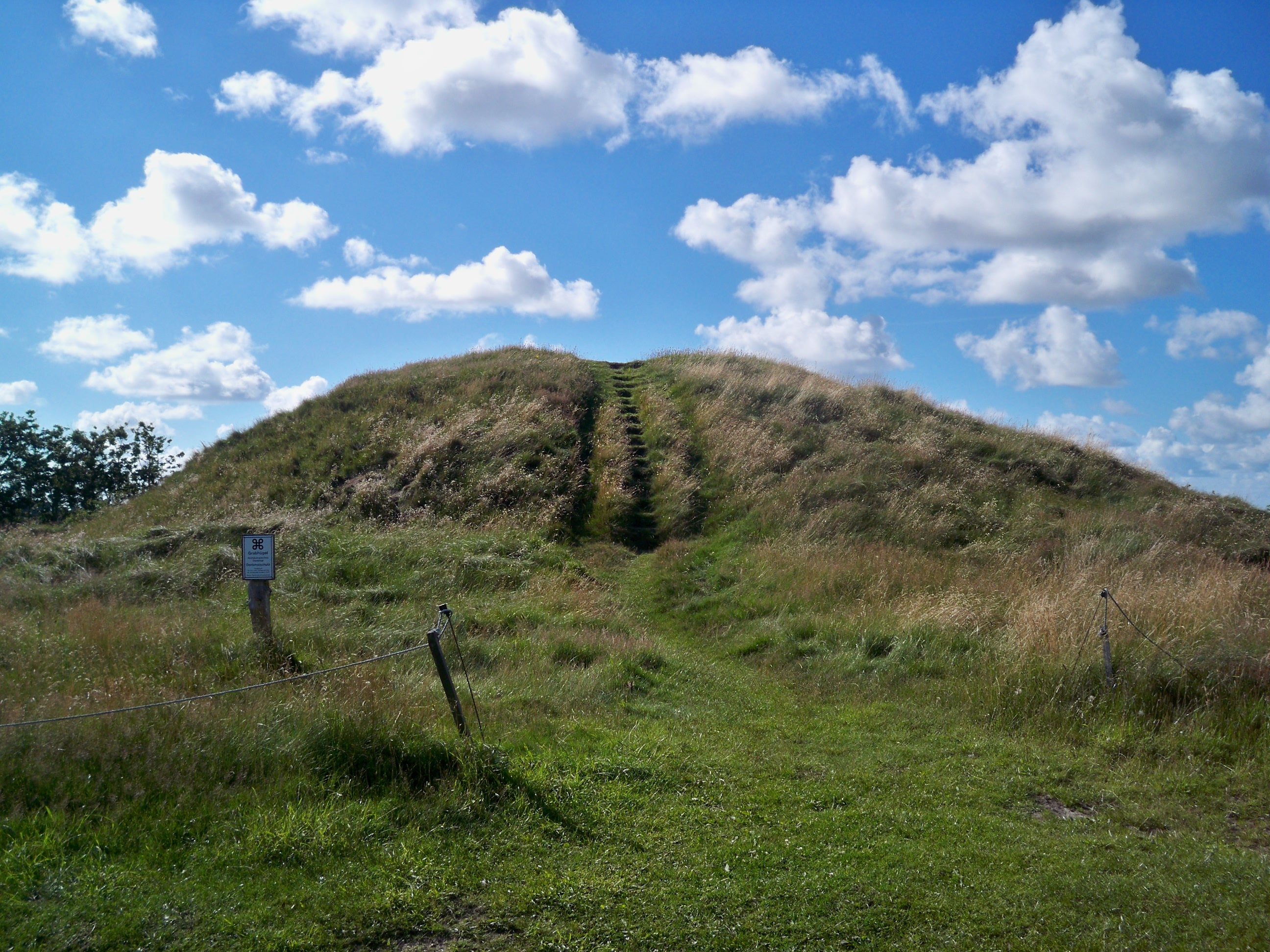 Steenodde, Nebel municipality, island of Amrum, prehistoric gravehill "Esenhugh"